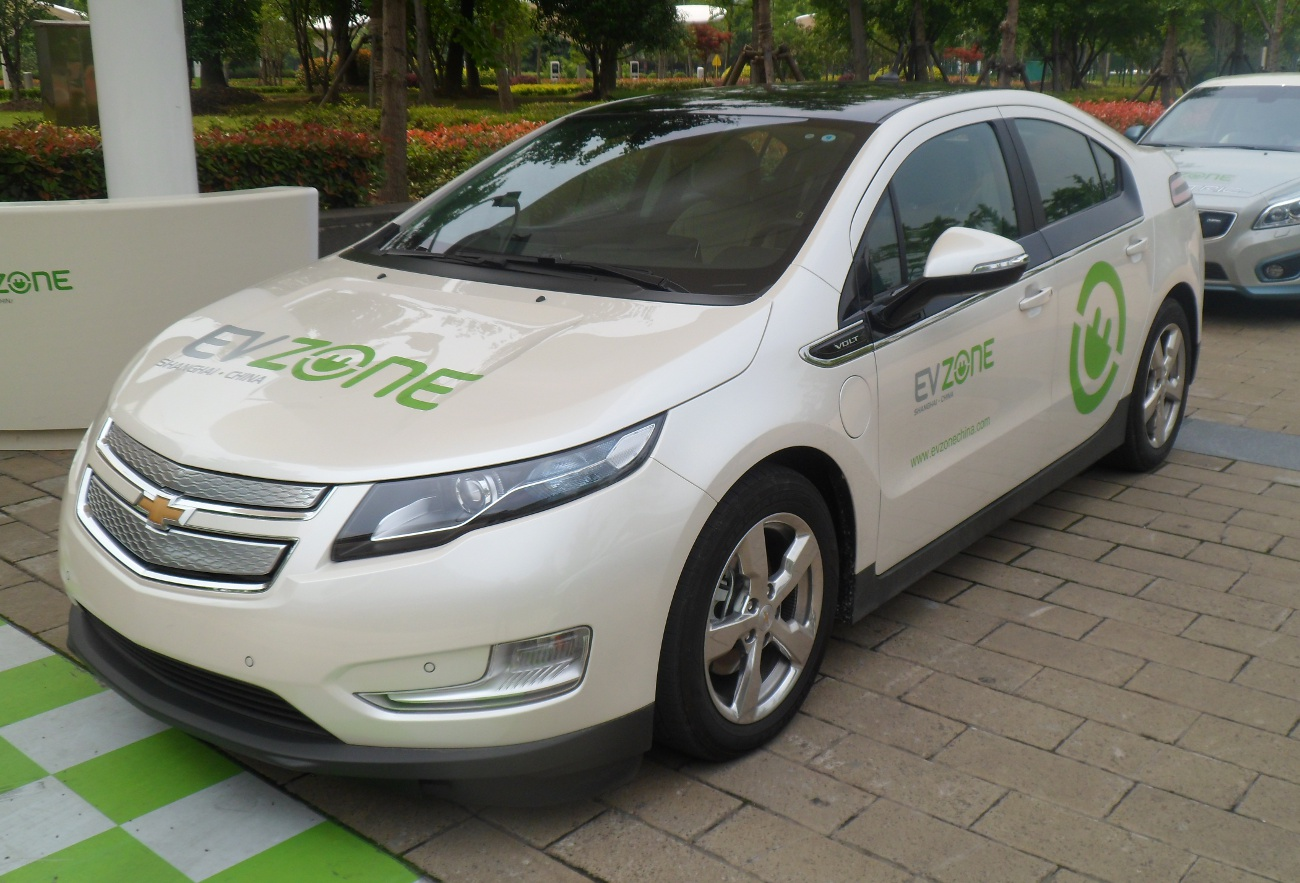 Chevrolet Volt photographed in Anting, Shanghai municipality, China.